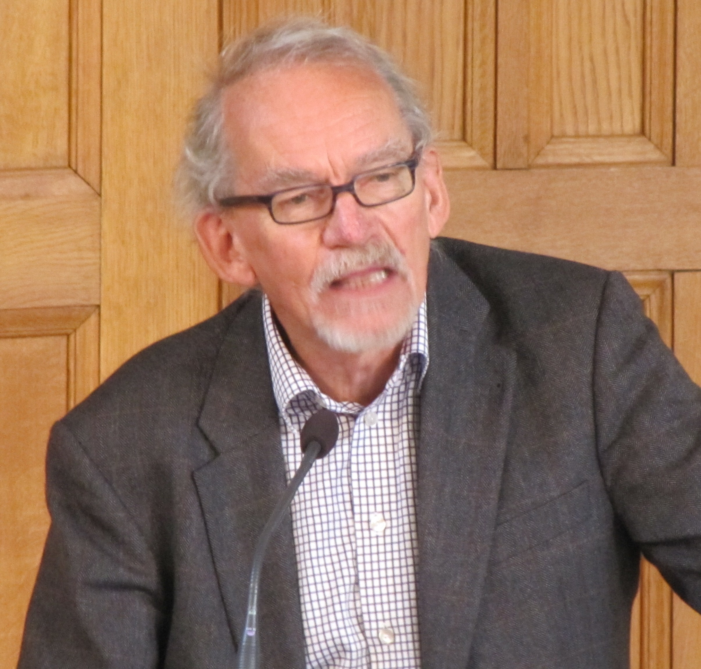 Lecture by professor Sven-Eric Liedman at the auditorium of the University of Gothenburg.